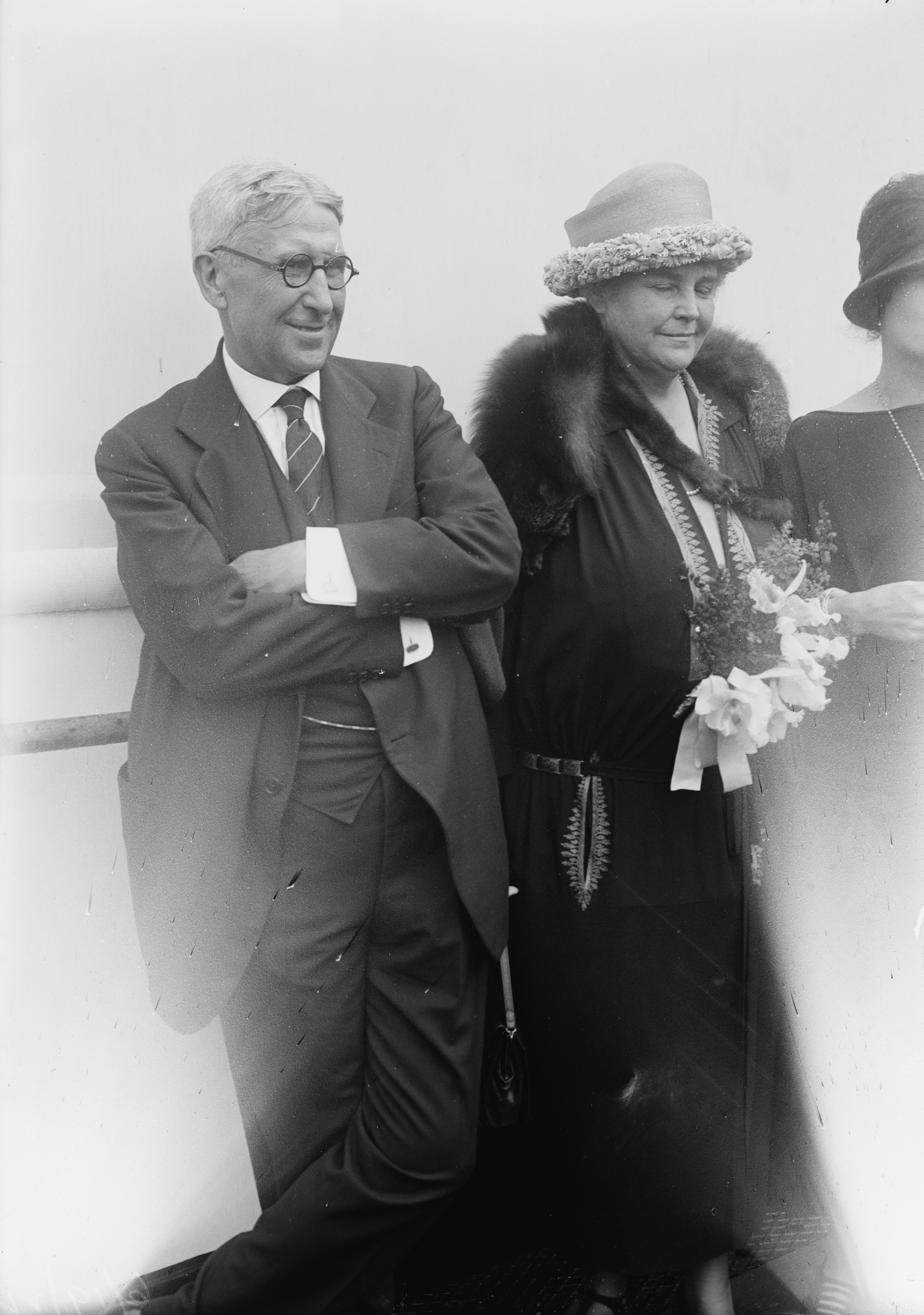 Lindley Garrison & wife